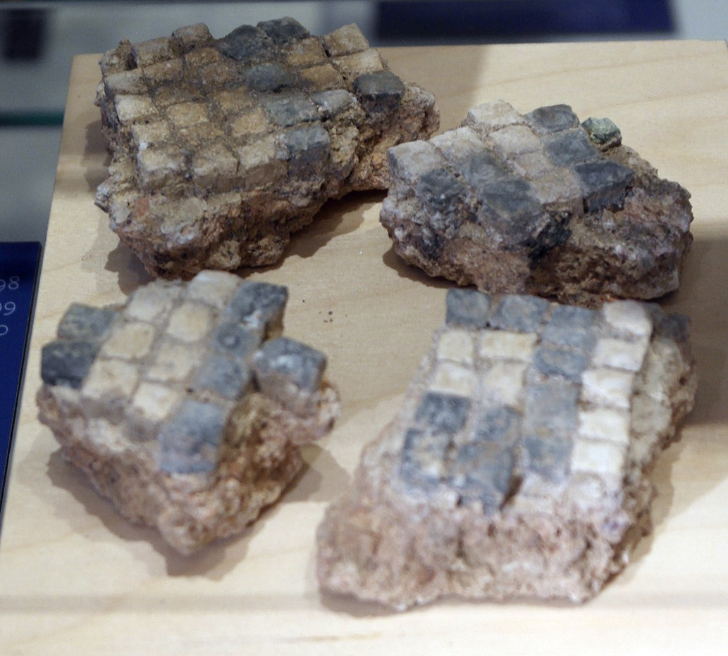 Fragments of mosaics, excavated at a Roman villa in Valkenburg, now in the archaeological collection of the Limburgs Museum in Venlo, the Netherlands.